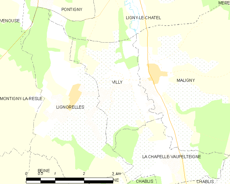 Map of French municipality Villy